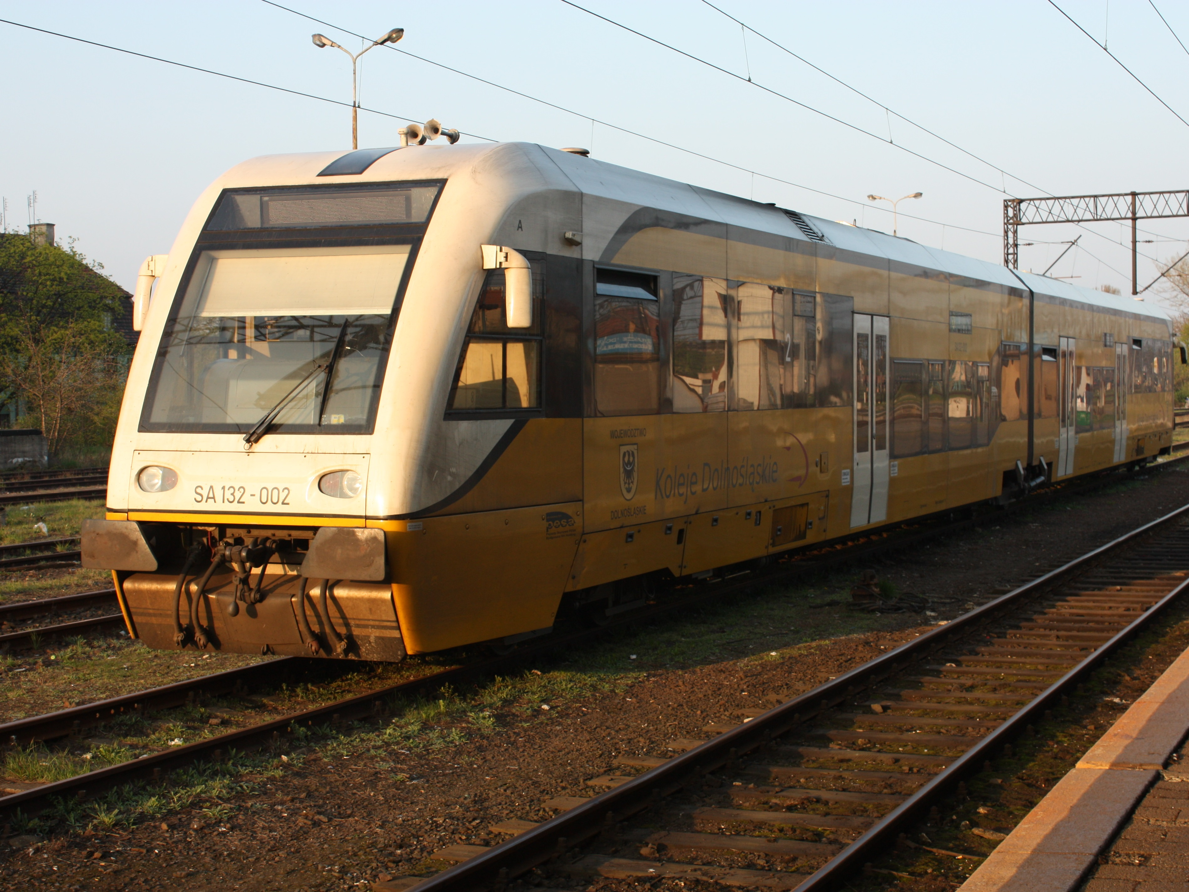 Railbus SA132 (produced by Pojazdy Szynowe PESA Bydgoszcz SA) in Brzeg railway station Legnica